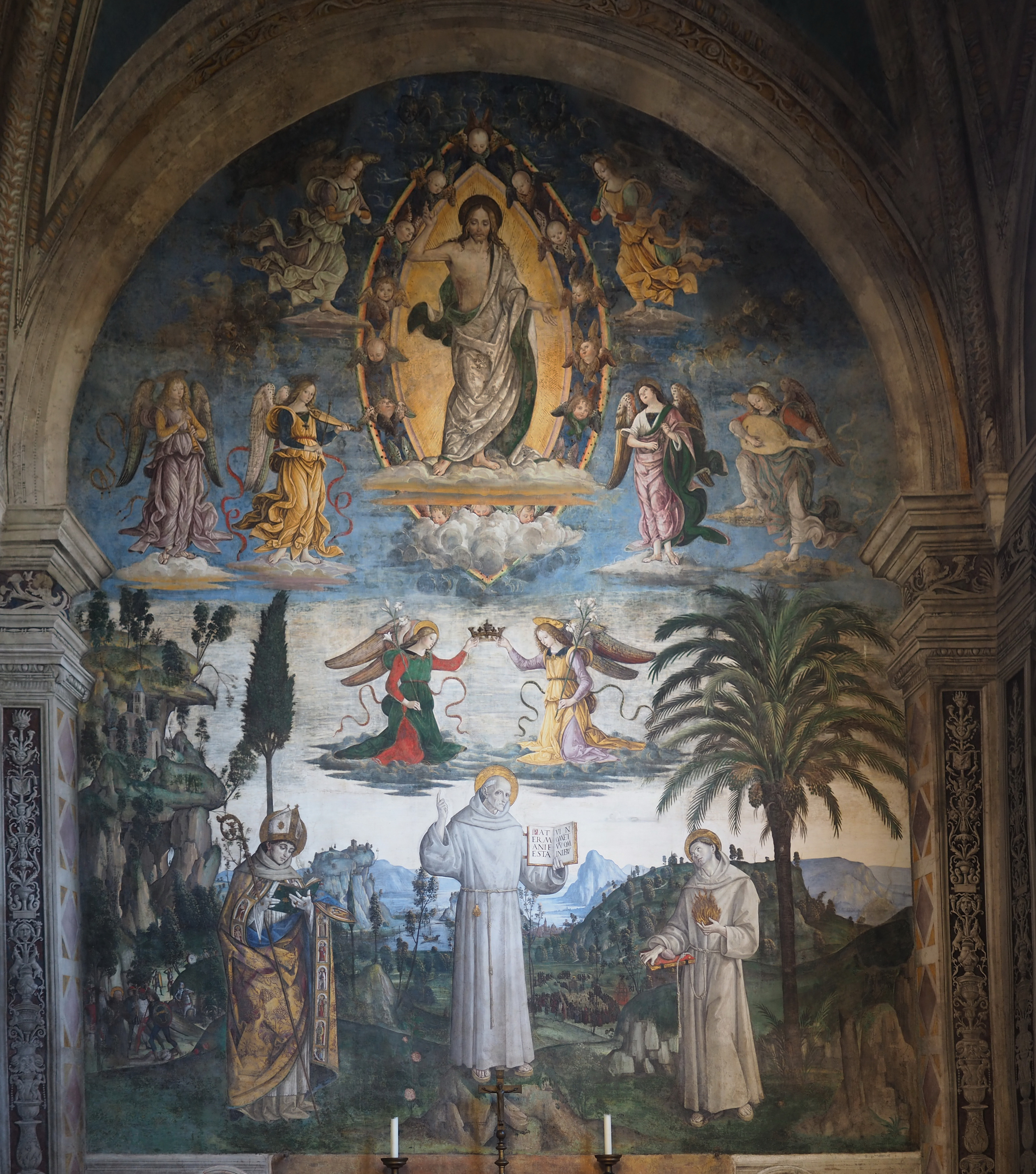 Santa Maria in Aracoeli (Rome); Cappella Bufalini; Pinturicchio; Glory of San Bernardino